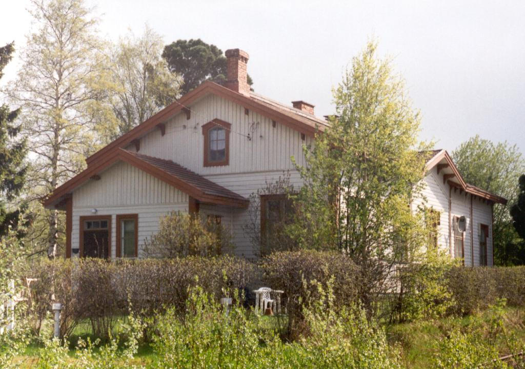 Toppila railway station, Oulu, Finland